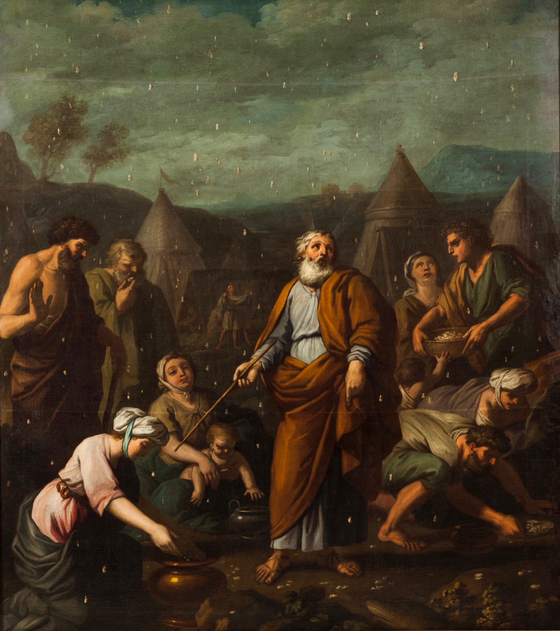 The Fall of Manna, 17th/18th-century Portuguese School.